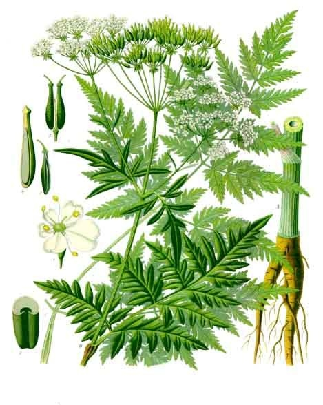 (publishing number 37, volume 3) Wild Chervil, Anthriscus sylvestris (L.) Hoffm.. caption on scanned page 184 : Plate description: A root and lower part of the stalk, B flowering part of the plant, C leaf of stalk. 1 flower; enlarged; 2 schizocarp; 3 a part of the fruitlet from the groove-side; 4 longitudinal section; 5 transverse section. After living plants from the Flora of Gera, Reuss.«